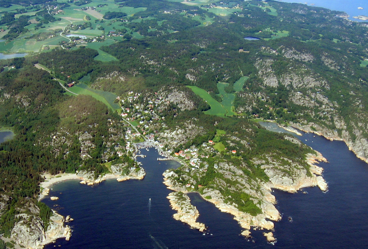 Ula harbour in the middle of the picture. To the left the two beaches. To the right Herfellbukta.